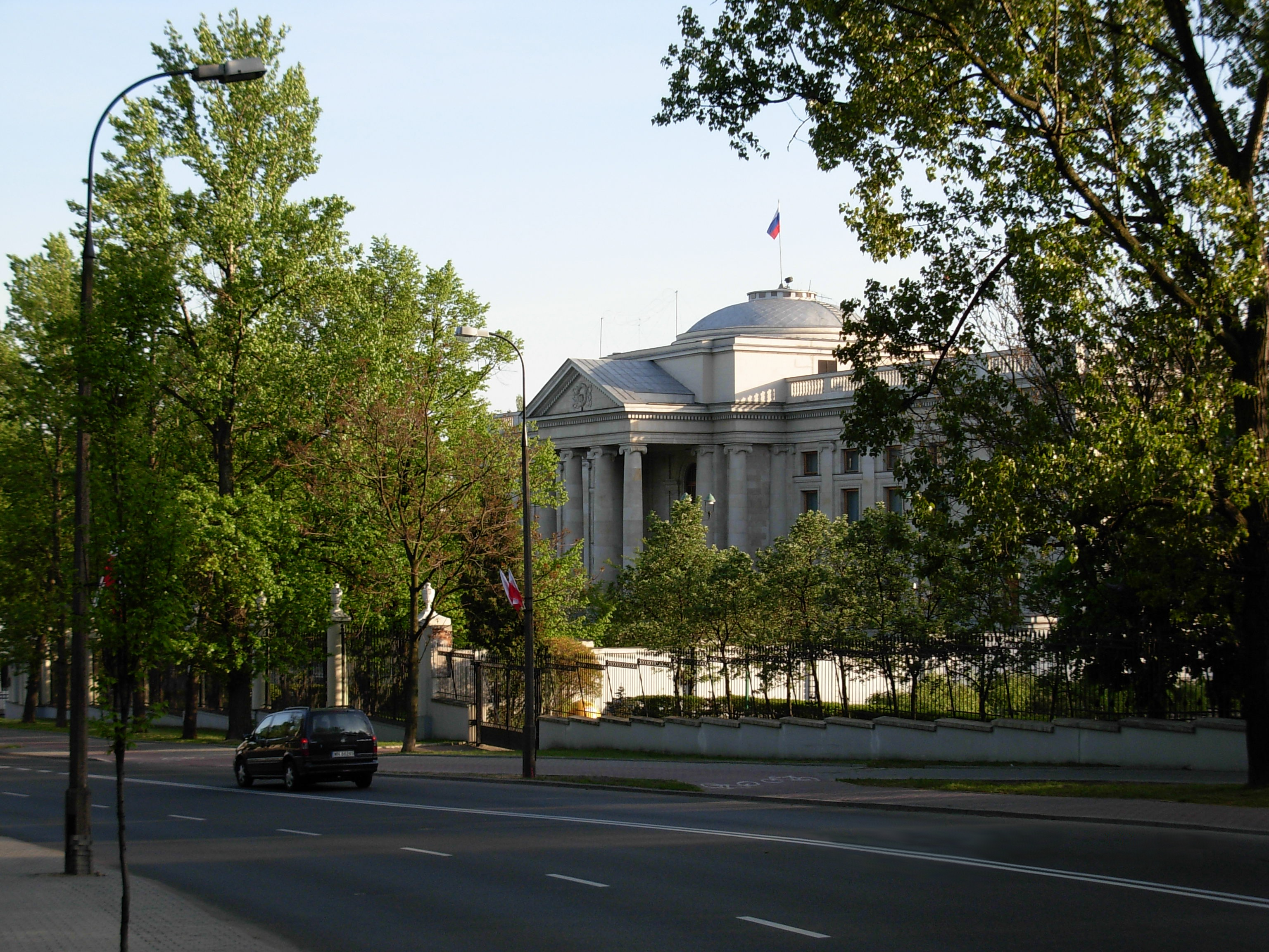 Russian Embassy in Warsaw